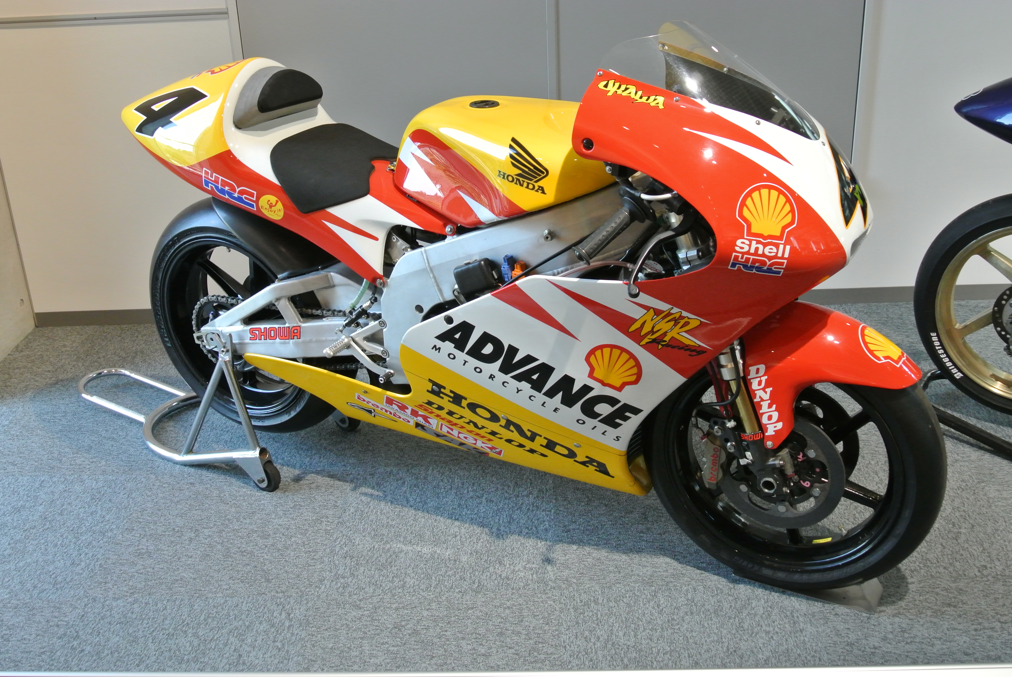 1999 NSR250 in the Honda Collection Hall.